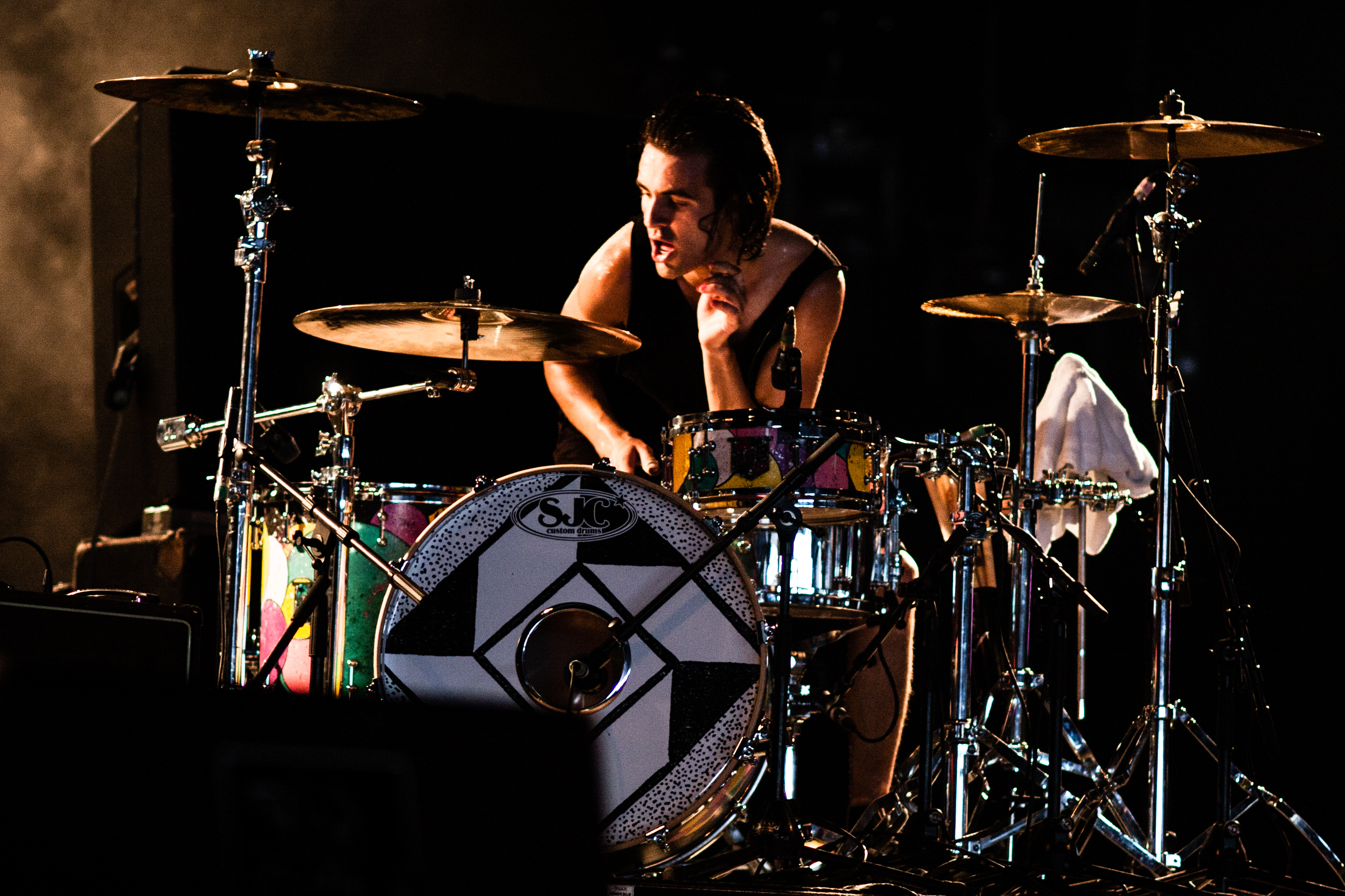 Follow me on facebook Twitter : @didyPhotography All the photographies I've made are now under CC0 (Creative Commons Zero) CC0 - learn more To the extent possible under law, Eddy BERTHIER has waived all copyright and related or neighboring rights to Against Me! @ Dour 2012. This work is published from: France.